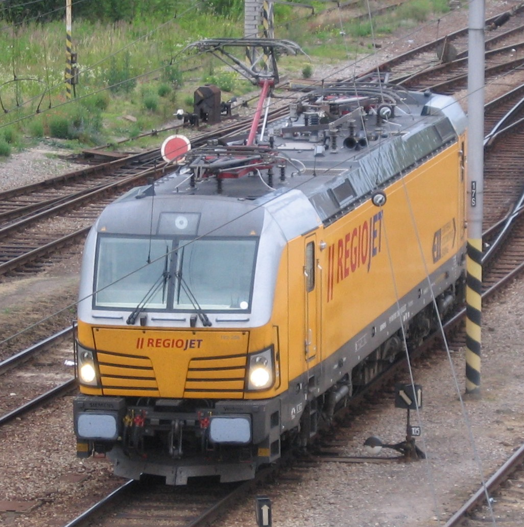 Vectron 193 206 D-ELOC (European Locomotive Leasing) hired by Regiojet at Praha-Smíchov.